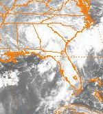 National Climatic Data Center GIBBS satellite archive ftp://eclipse.ncdc.noaa.gov/pub/isccp/b1/.D2790P/images/1994/185/Img-1994-07-04-18-GOE-7-VS.jpg